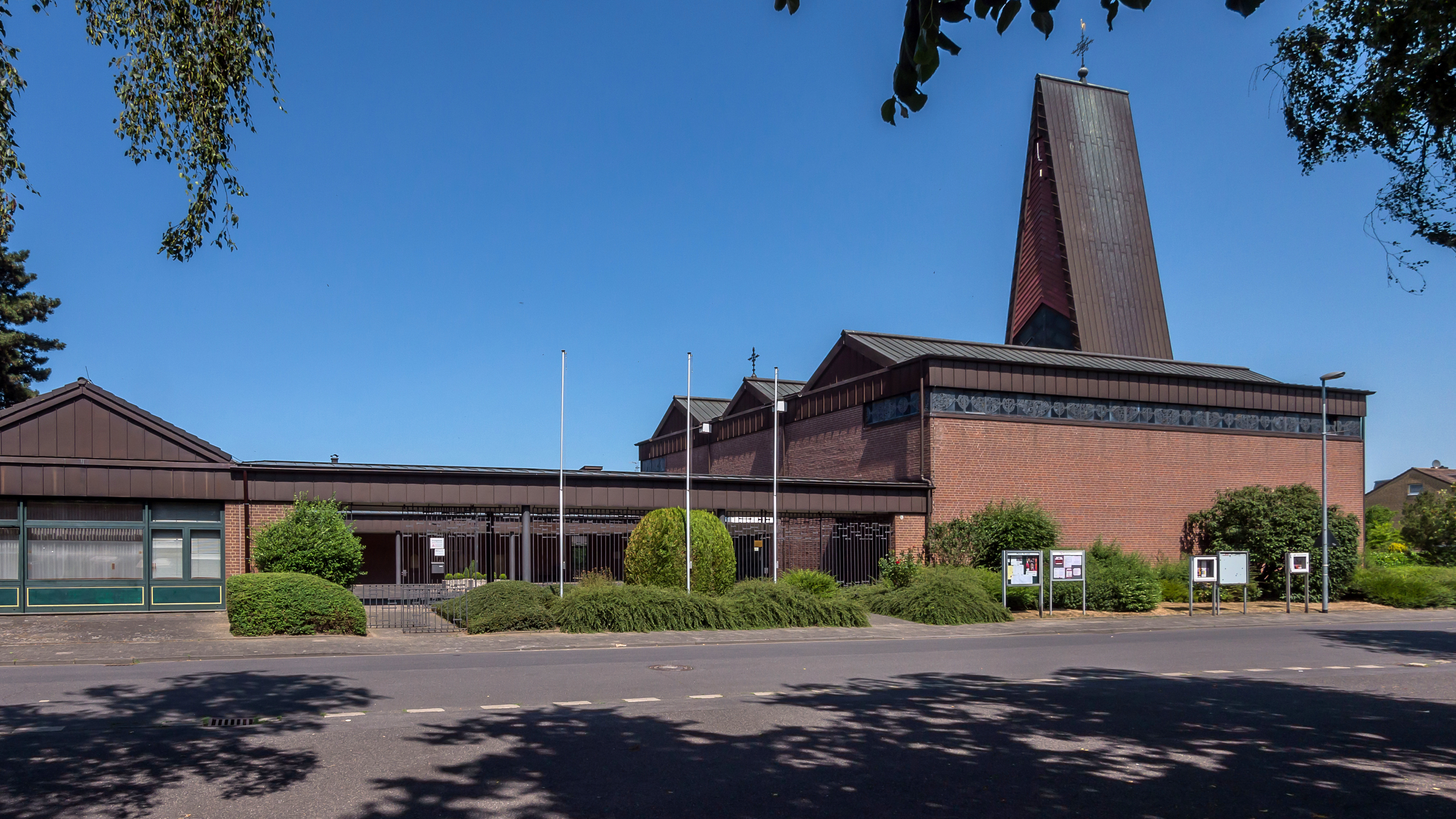 Rath - Friedensstraße Katholische Pfarrkirche Sankt Lucia 13This is a photograph of an architectural monument., no. 101